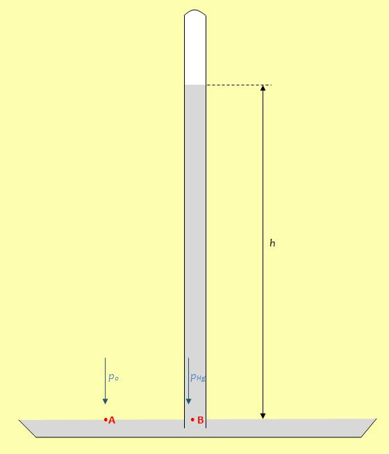 Test of Torricelli